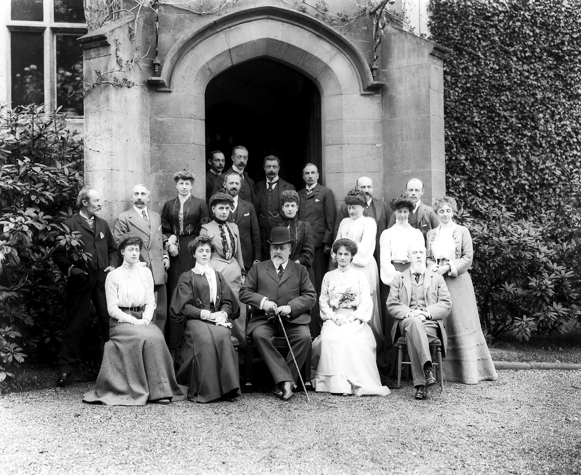 King Edward VII at Lismore, Co. Waterford in early May 1904. The king was visiting the Duke of Devonshire at his Irish seat (correct term?) at Lismore Castle. The Duke of Devonshire is apparently in this photo. Would like to identify him and/or anybody else in the photo, and in fact, find out anything at all about this royal visit to Co. Waterford... Date: May 1904 NLI Ref.: POOLEIMP 1273 Other people could include Queen Alexandra, Edward VII's wife Princess Victoria of the United Kingdom, their daughter Fanny Currey, painter, gardener (1848-1912 or 1917) has close links to the castle.